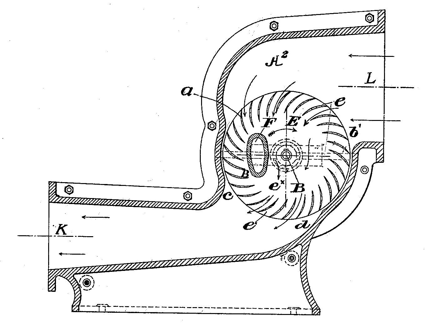 Cross-flow fan, drawing from US Pat. No. 507,445 (October 1893), with minor clean-up. Full patent text